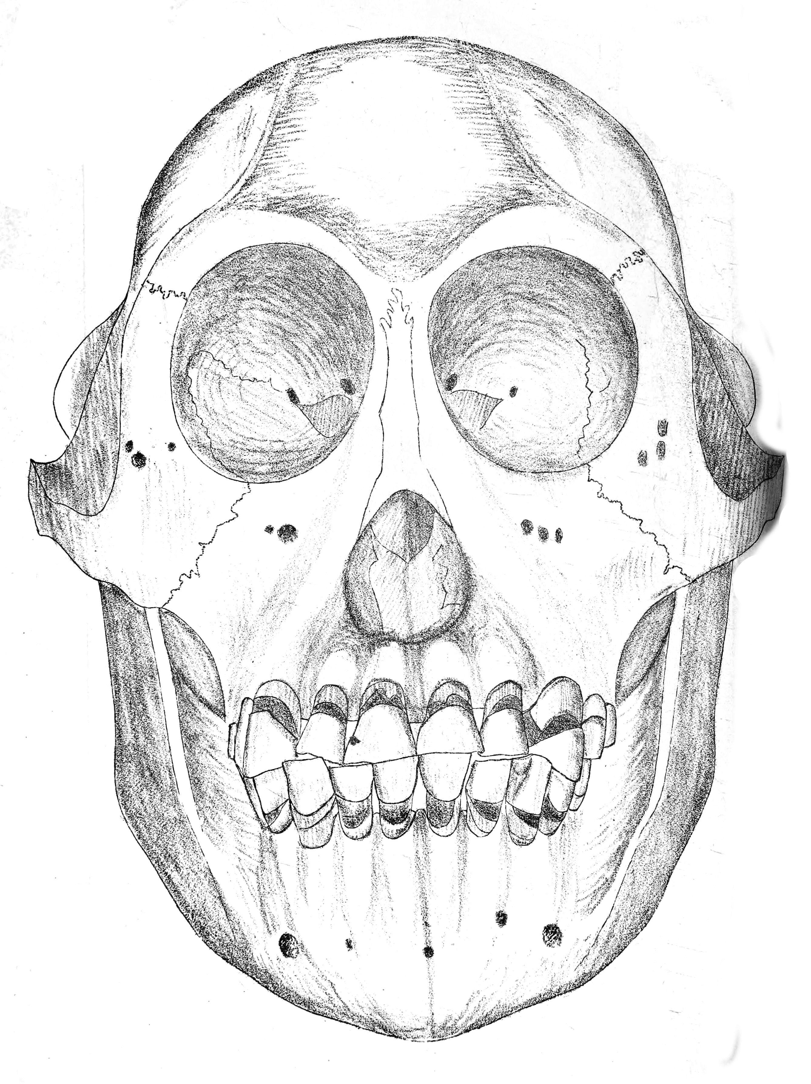 Skull of orangutan, Pongo pygmaeus ssp. morio